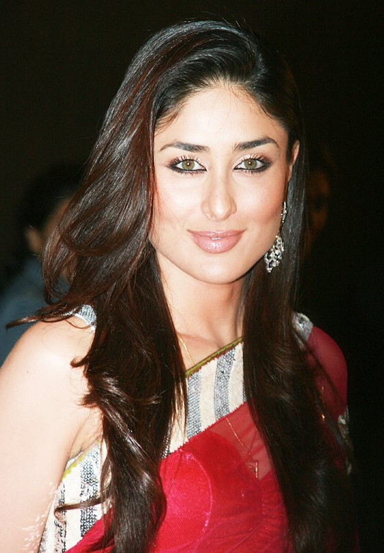 Indian actress Kareena Kapoor at the 2008 Global Indian TV Honours